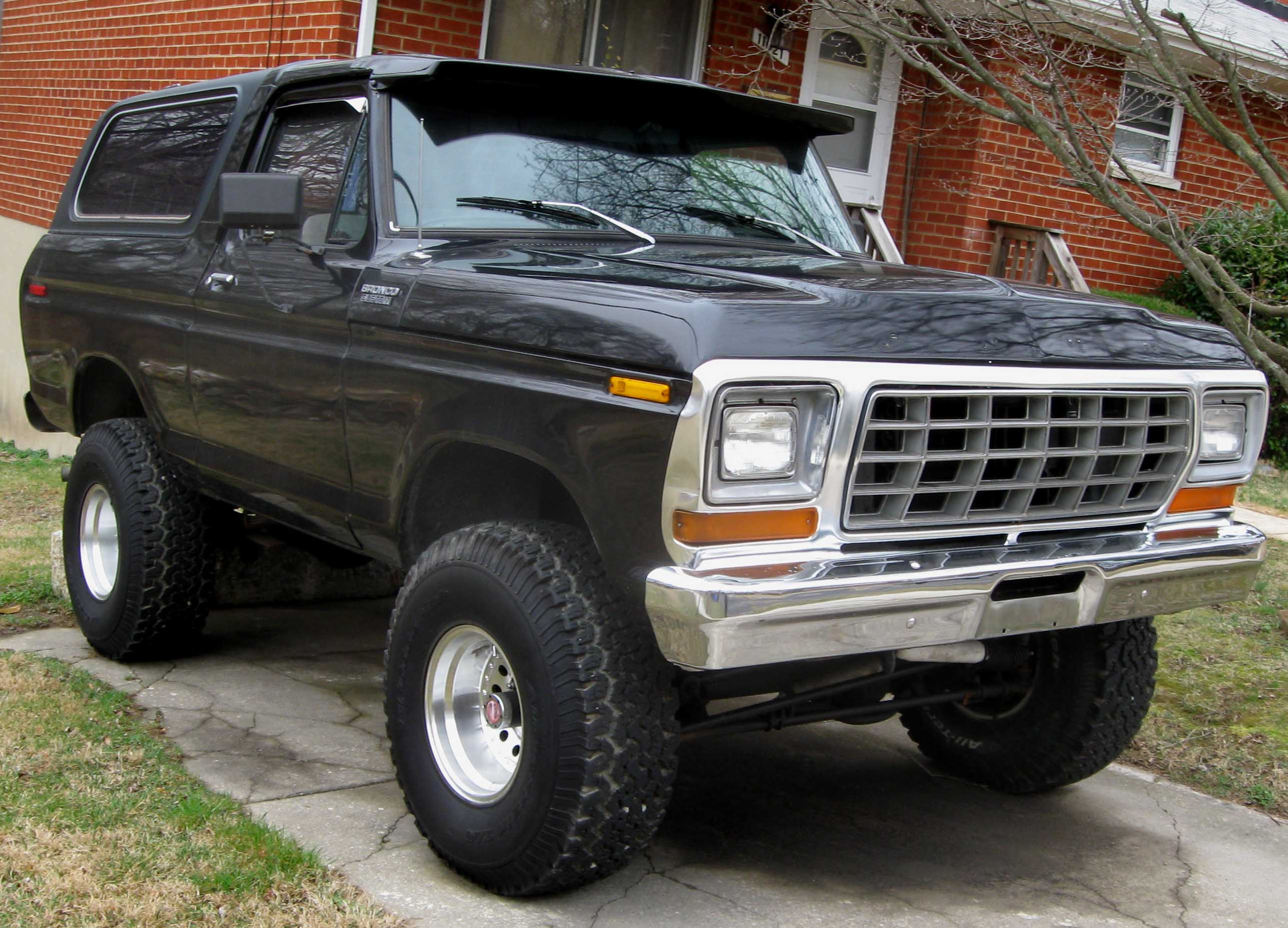 Ford Bronco photographed in Rockville, Maryland, USA.